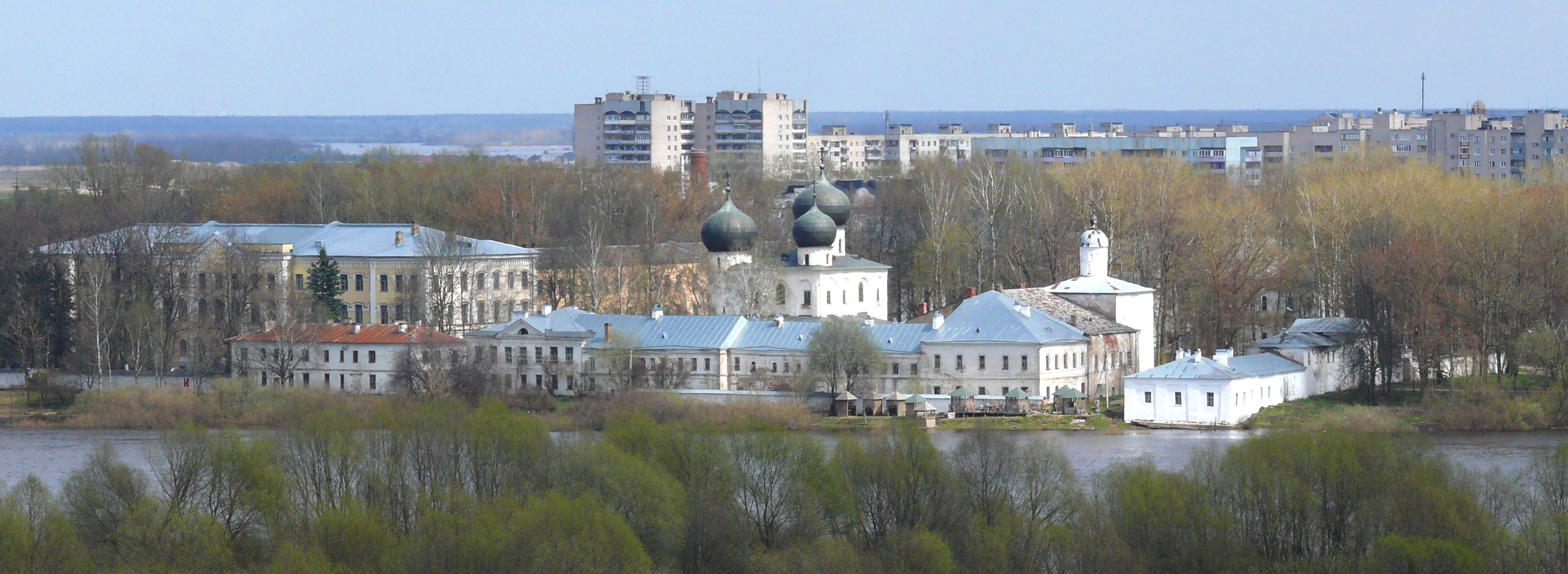 Antoniev monastery in Veliky Novgorod, Russia